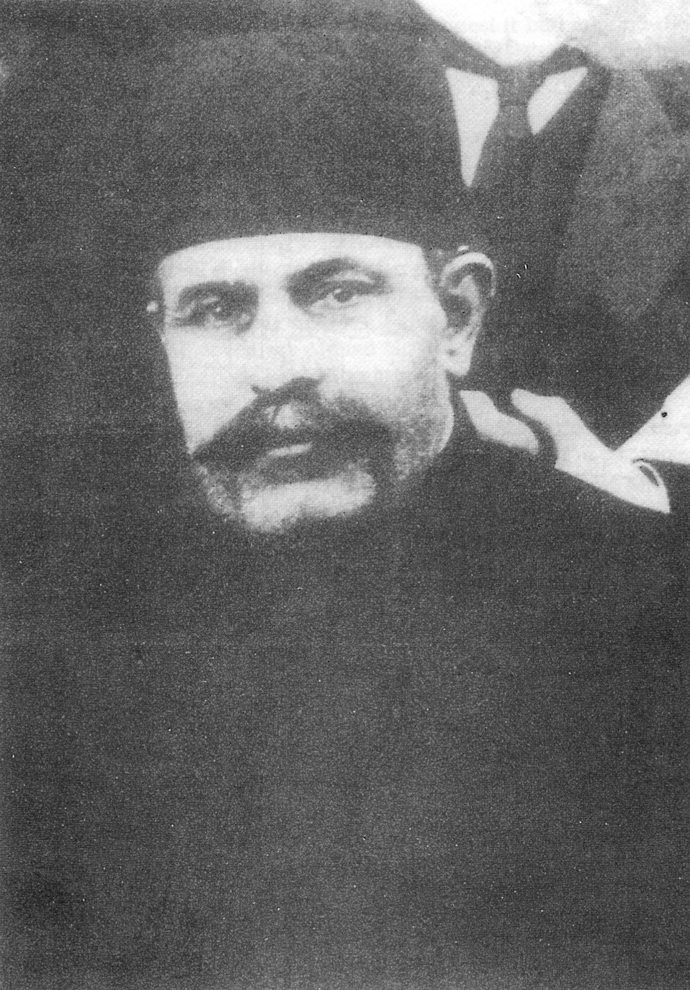 Prime Minister Fathollah Akbar Sepahdar, Iran, 1921